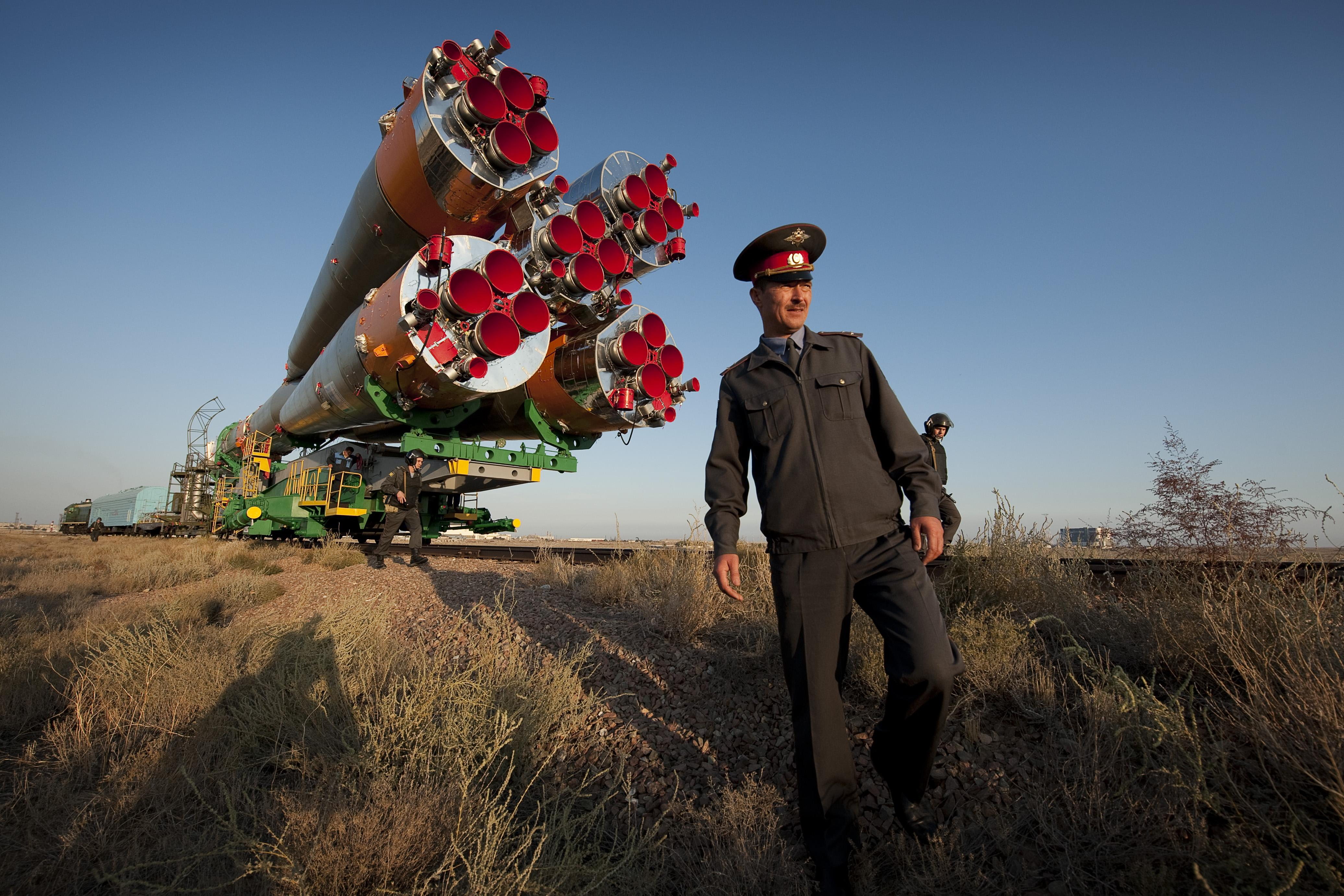 Russian security officers walk along the railroad tracks as the Soyuz rocket is rolled out to the launch pad Monday, Sept. 28, 2009 at the Baikonur Cosmodrome in Kazakhstan. The Soyuz is scheduled to launch the crew of Expedition 21 and a spaceflight participant on Sept. 30, 2009.